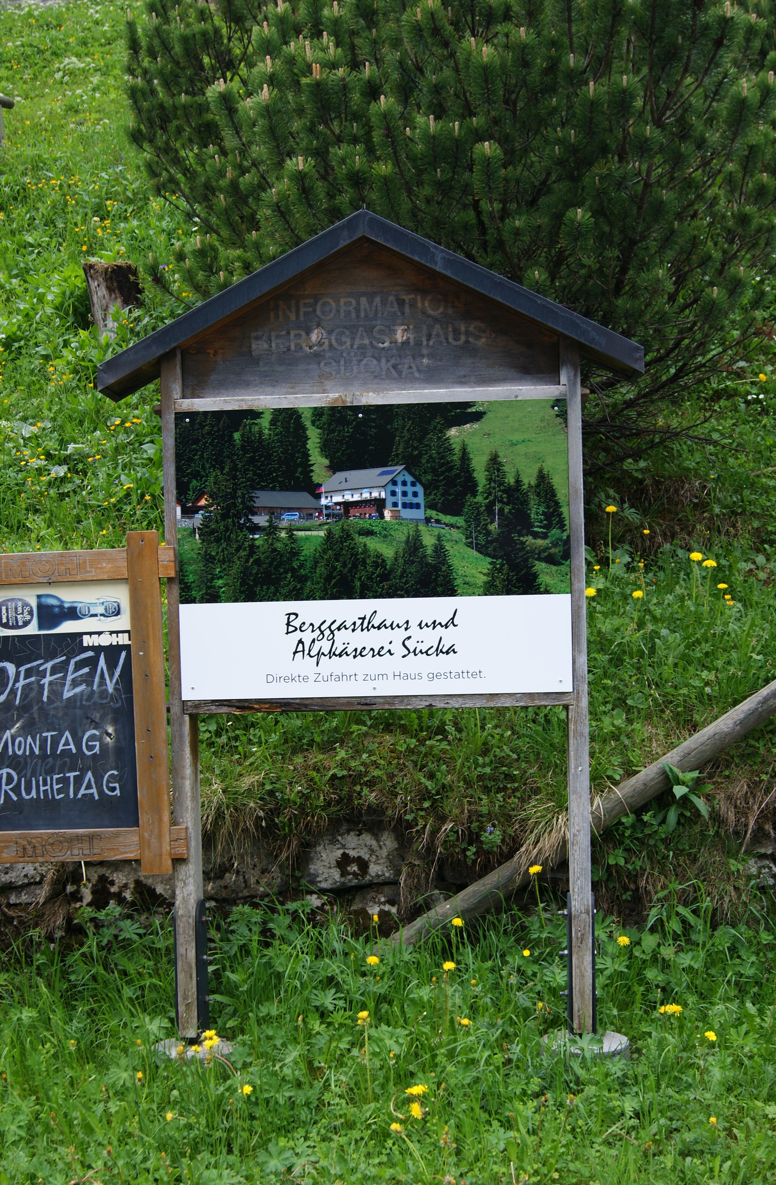 Steg in the Principality of Liechtenstein. Informationboard Inn Sücka.